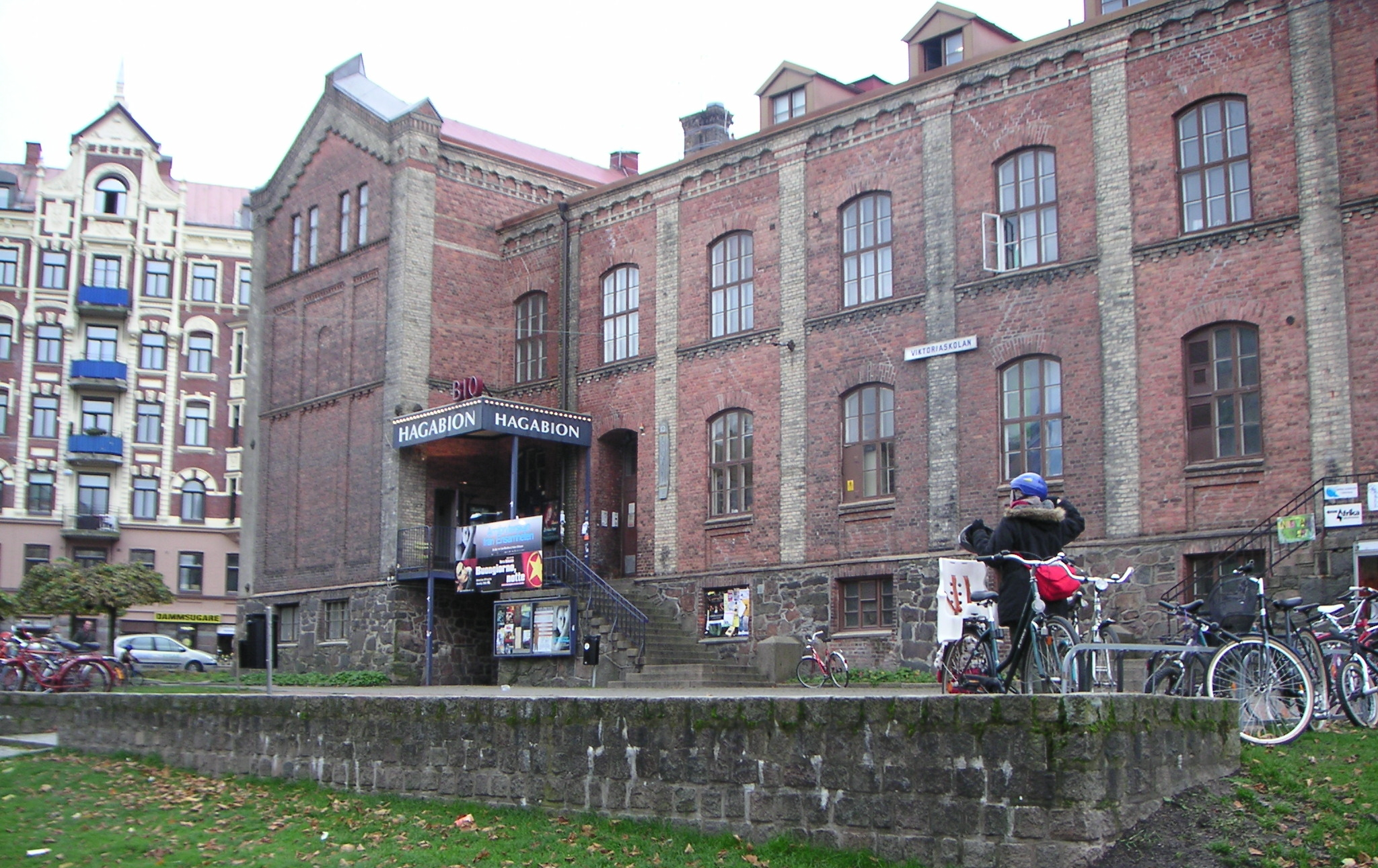 Hagabion in Göteborg, October of 2004.